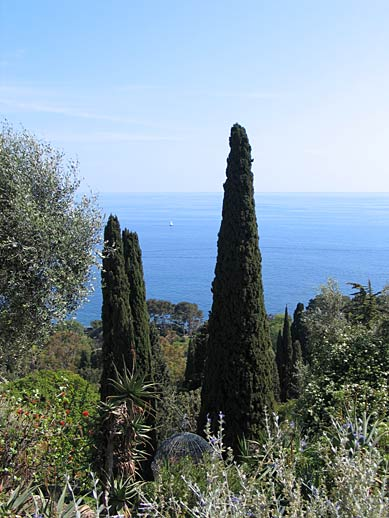 View of the Villa Orengo gardens and Mediterranean Sea coast at Hanbury Botanical Gardens - at Ventimiglia, Liguria - Italy.